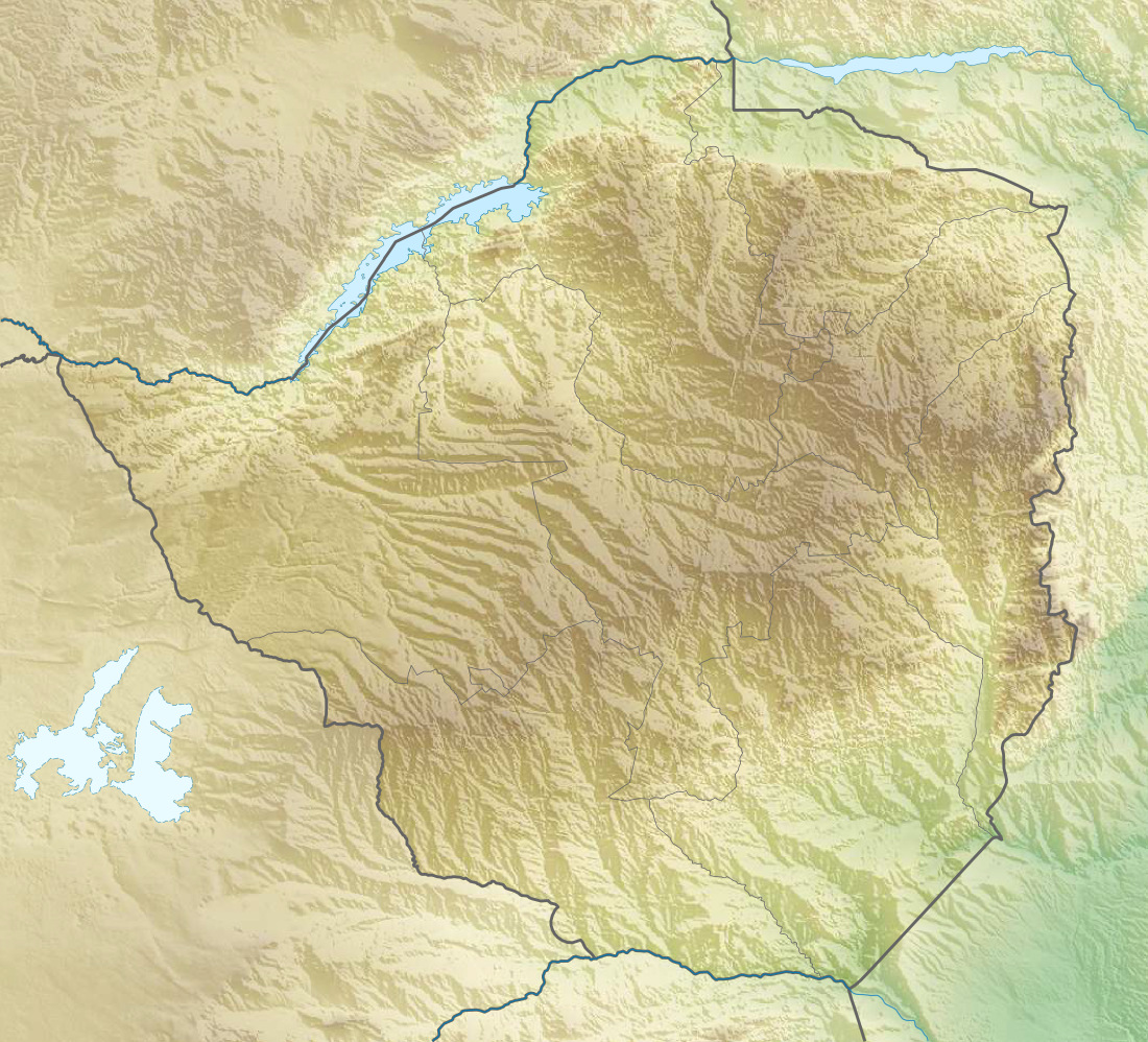 Physical location map of Zimbabwe Equirectangular projection, N/S stretching 105 %. Geographic limits of the map: N: 15.2° S S: 22.8° S W: 24.8° E E: 33.6° E